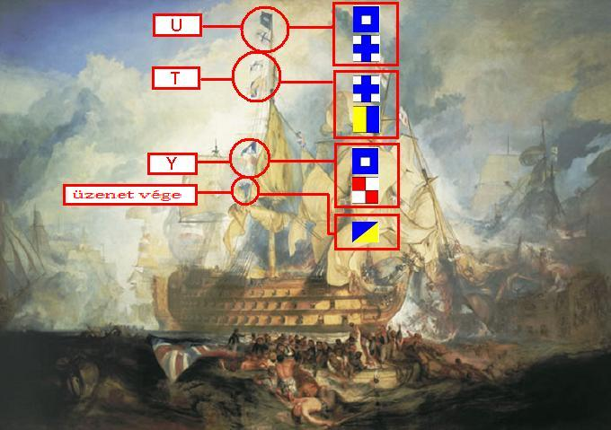 Hungarian translation of J_M_W_Turner-La_bataile_de_Trafalgar.JPG